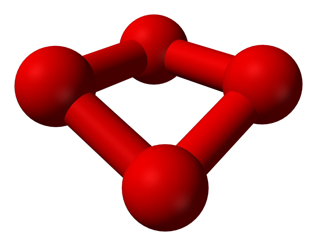 Ball-and-stick model of a proposed D2d structure for the tetraoxygen molecule, O4. Structural data from Hernández-Lamoneda, R.; A. Ramírez-Solís (September 2000). "Reactivity and electronic states of O4 along minimum energy paths". Journal of Chemical Physics 113 (10): 4139–4145. Image generated in Accelrys DS Visualizer.